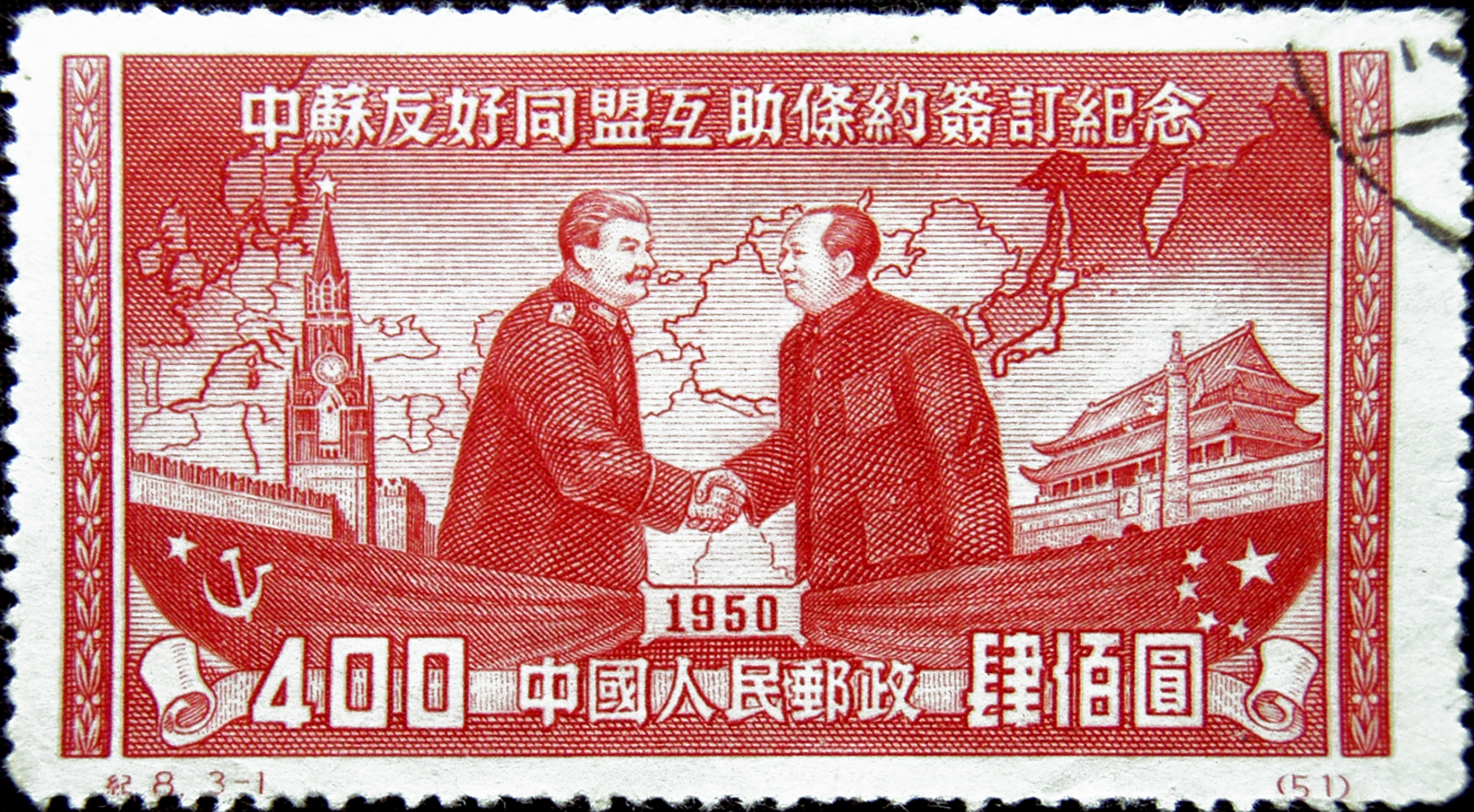 Derived from File:Chinese stamp in 1950.jpg